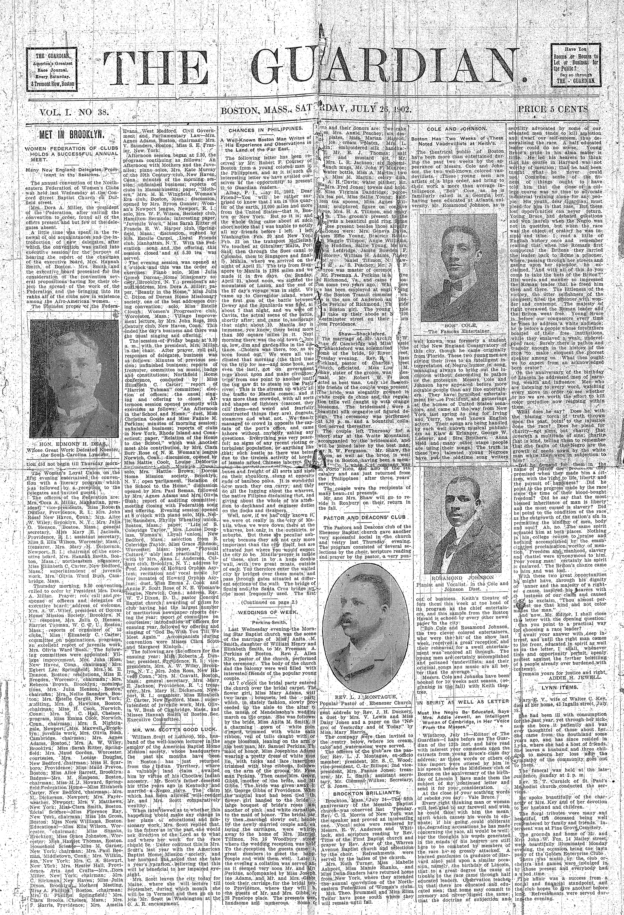 Front page of The Guardian, July 26 1902